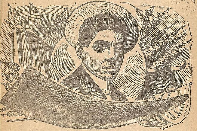 Rodolfo Gaona, mexican bullfighter